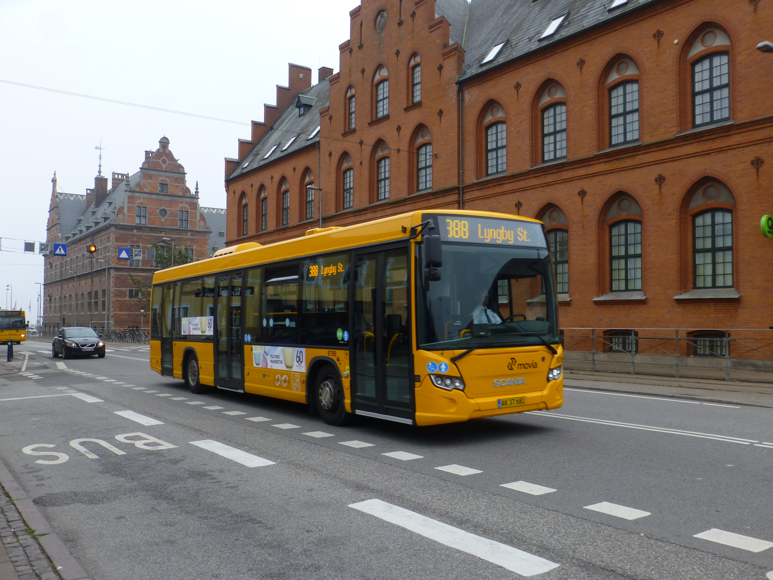 Movia bus line 388 at Helsingør Station in Denmark.